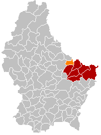 Own edit of Kanton EchternachLocatie.png